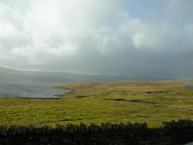 Cow Green reservoir. weather is a changing